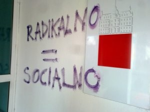 Vstajniške socialne delavke. Akcija. Grafitiranje.